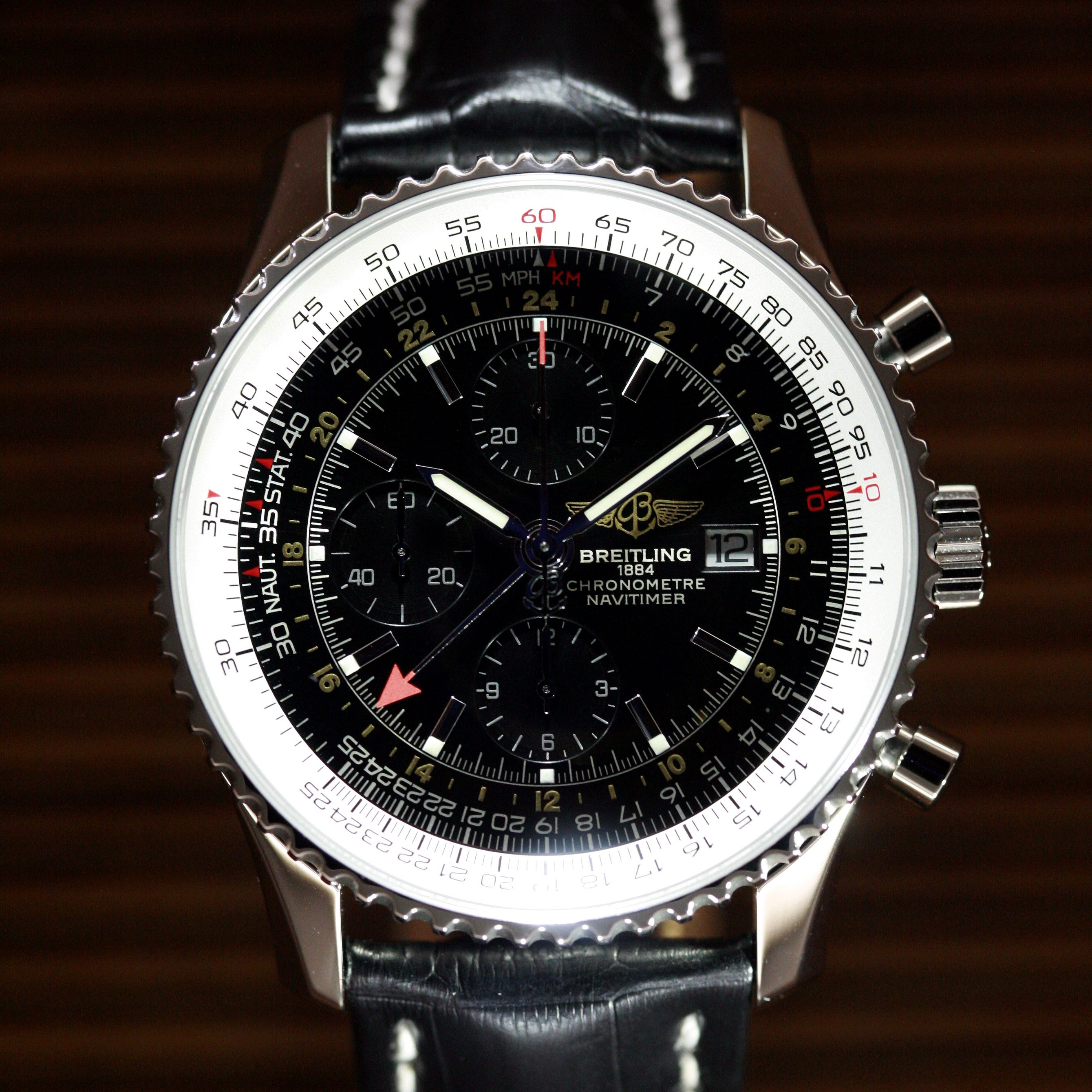 Breitling watch